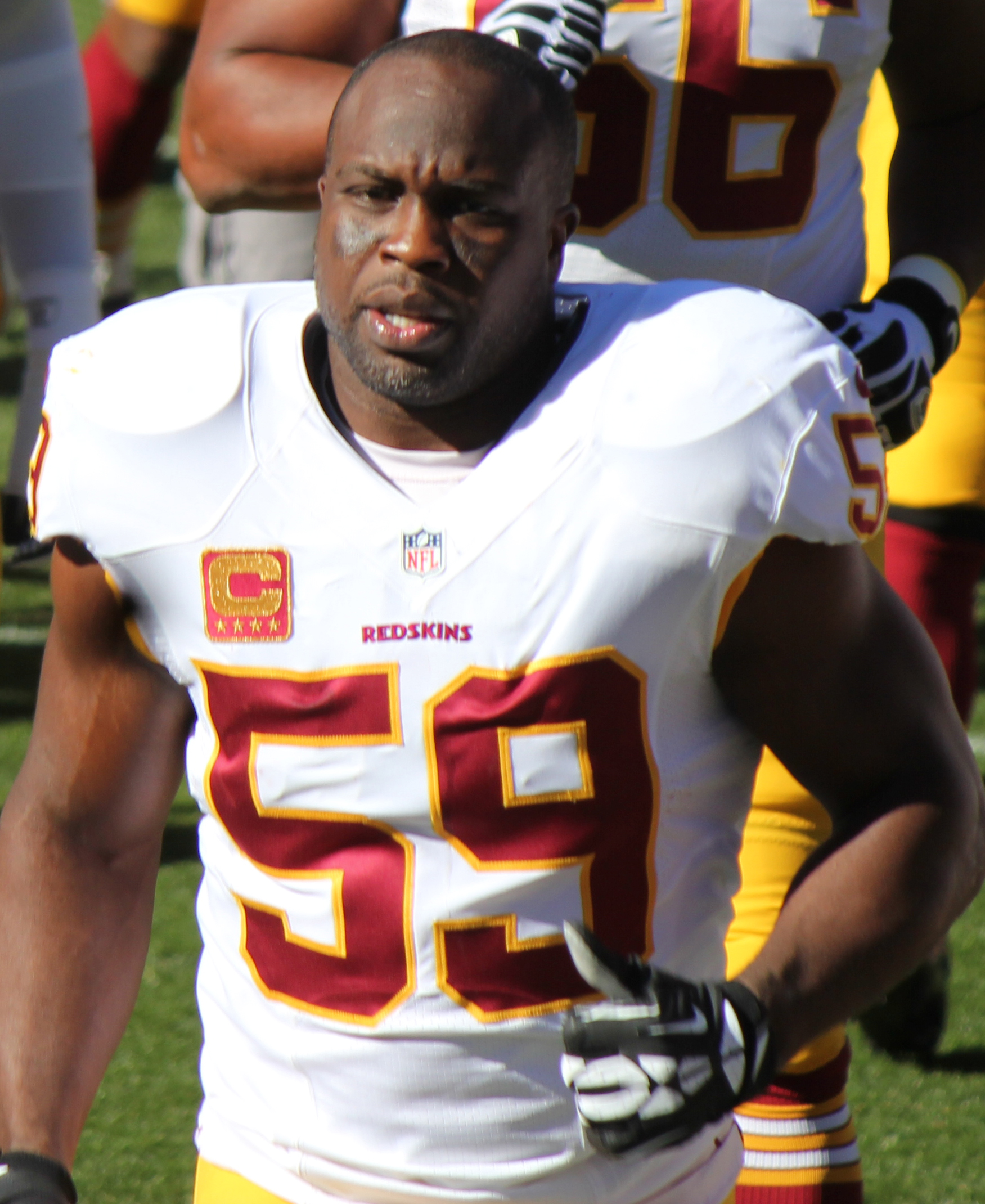 London Fletcher, a player on the National Football League.